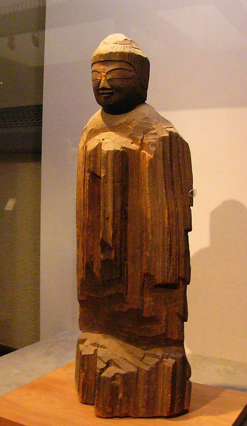 Buddha, Japanese cypress Wood, height 80cm,sculptured by Enkū (ACE1632–1695) , stored in Tokyo National Museum